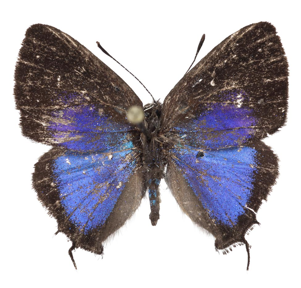 Image shows the dorsal surface of the holotype for Lathecla winnie male holotype1 (Lycaenidae), reported in Robbins & Busby, 2015. Lathecla winnie is named after Winifred "Winnie" Hallwachs. The contributor, Robert Robbins, is a federal employee at the Smithsonian Institution and requests that the image be credited as "courtesy of the Smithsonian Institution".